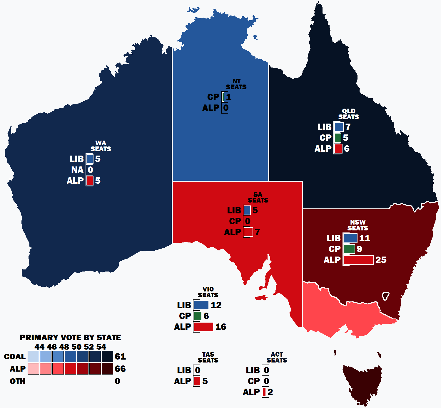 Result of the primary vote by state and territory in the 1974 Australian federal election.